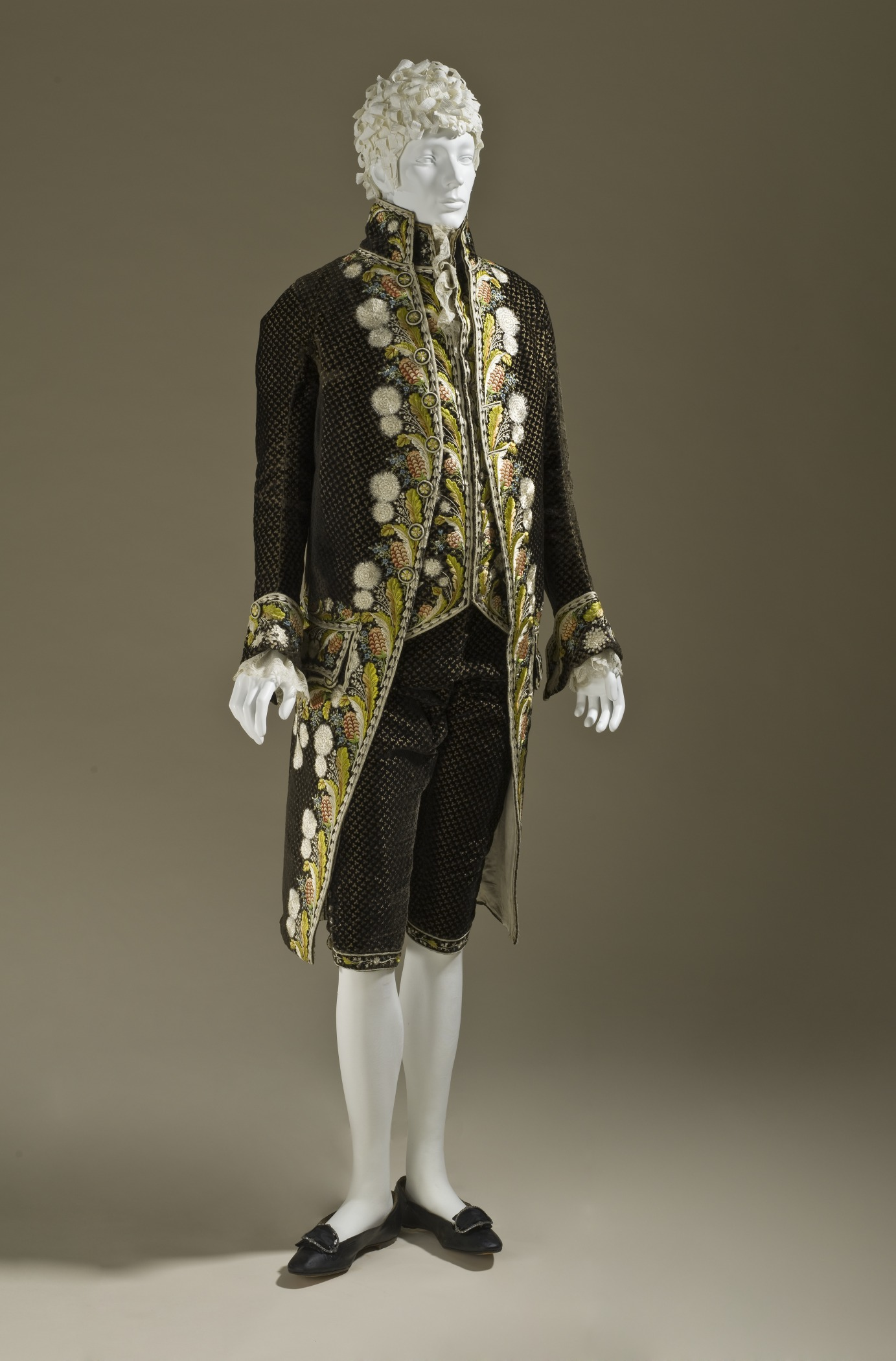 Man's Suit: silk cut and voided velvet on plain-weave foundation with supplementary weft-float patterning and silk embroidery.